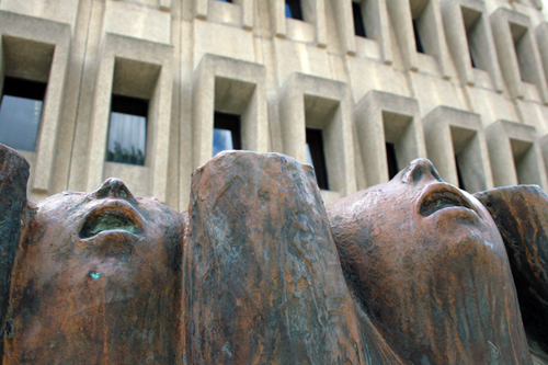 "Untitled" by William M McElcheran in Toronto/Canada